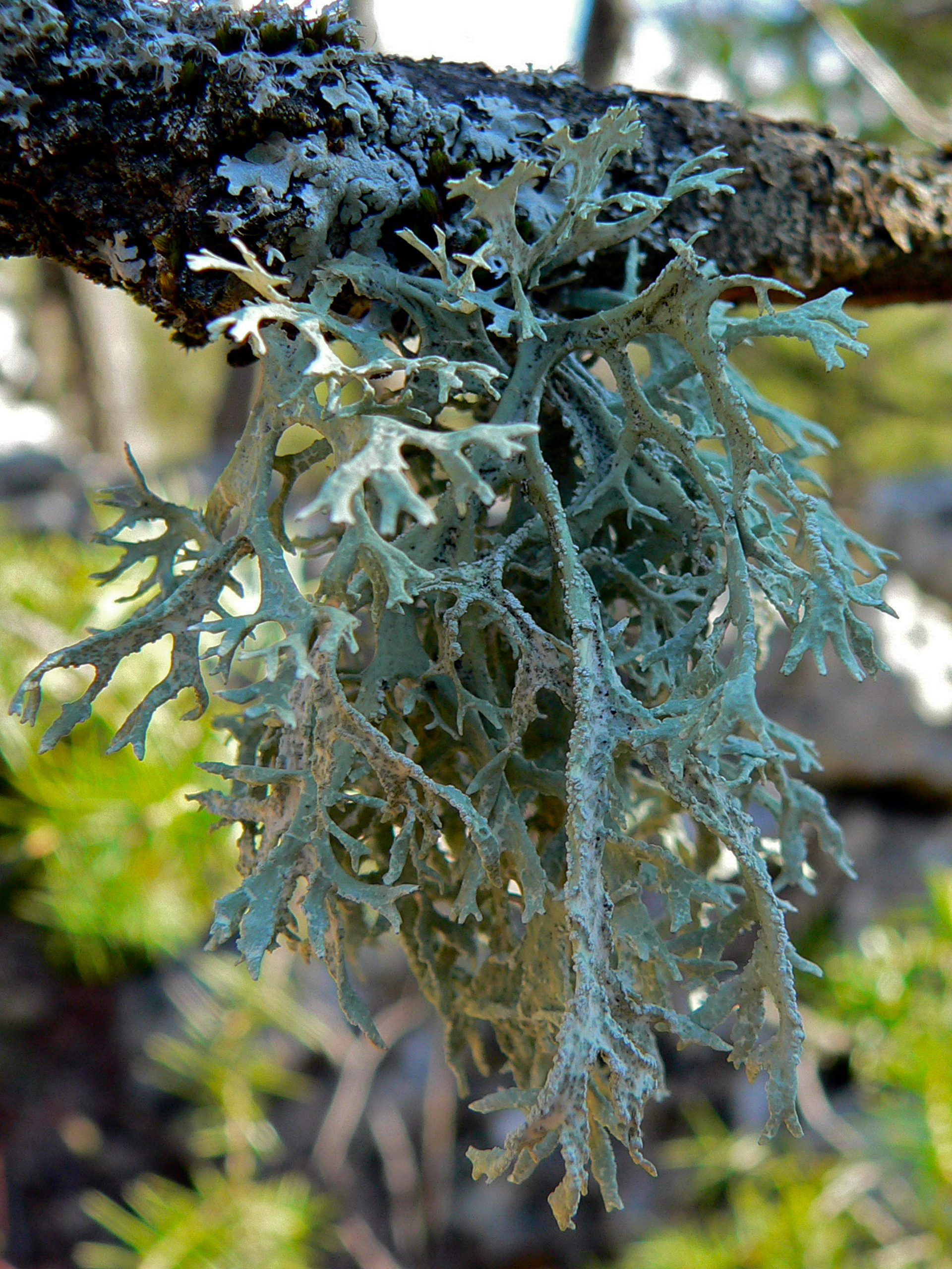 St Vallier-de-Thiey, Alpes-Maritimes, FRANCE